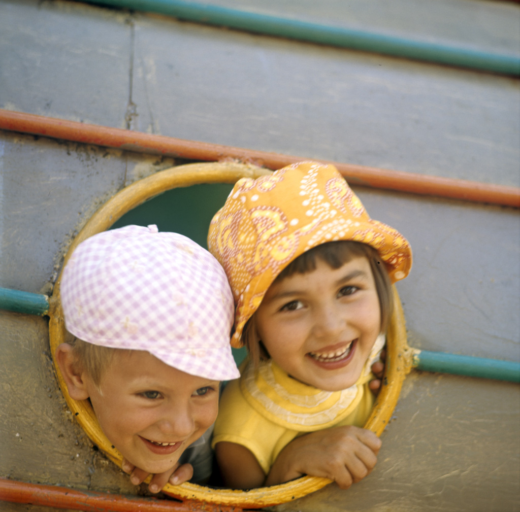 “City play park”. City play park.